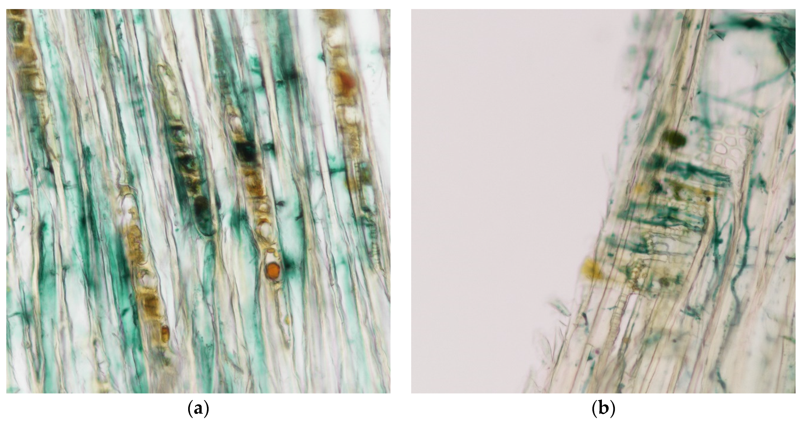 Microscopic images of a veneer of spalted poplar (Populus nigra) used in a tall case clock in the mid 1700s. (a) Tangential plane of veneer poplar showing mycelium expanding in ray cells (arrows), (b) Radial plane shows higher concentration of xylindein in rays than in fibers and vessels (arrows). From article Determining the Presence of Spalted Wood in Spanish Marquetry Woodworks of the 1500s through the 1800s by Patricia T. Vega Gutierrez and Seri C. Robinson.